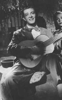 Jorge Casal- cantante